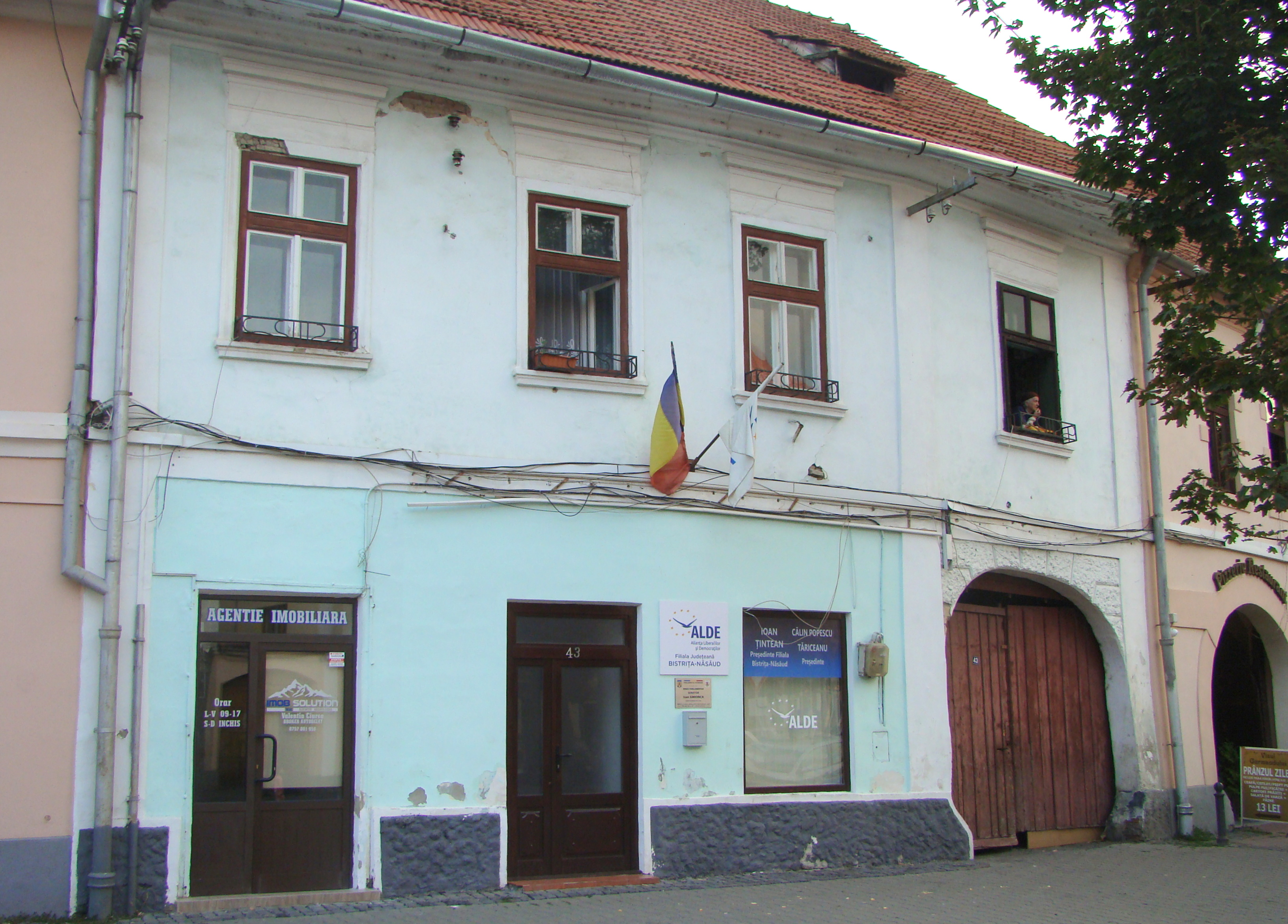 House, historic monument, in Bistrița, Liviu Rebreanu street 43